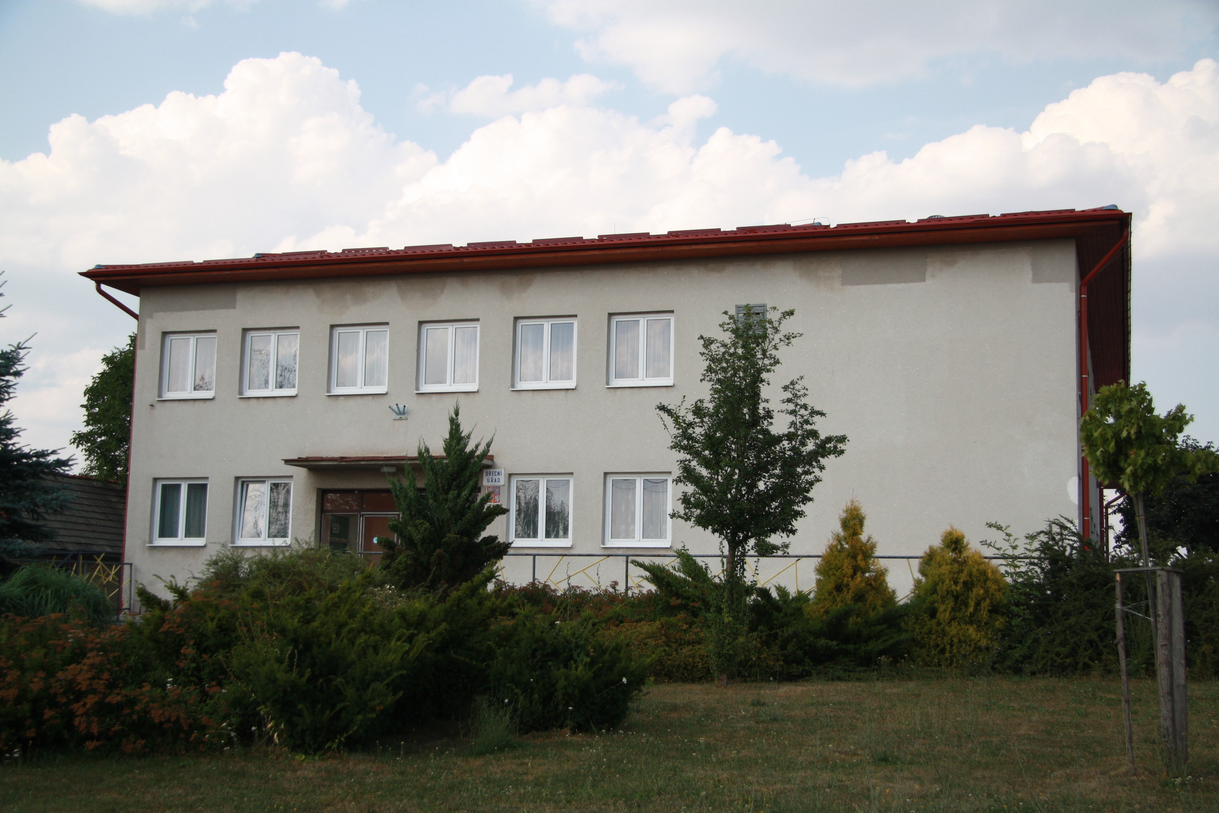 Municipal office in Čikov, Třebíč District